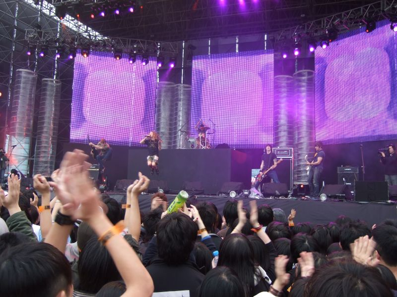 Strike Anywhere at the music festival "With justice we cure this nation", held in Taipei, Taiwan 2/28/2007.